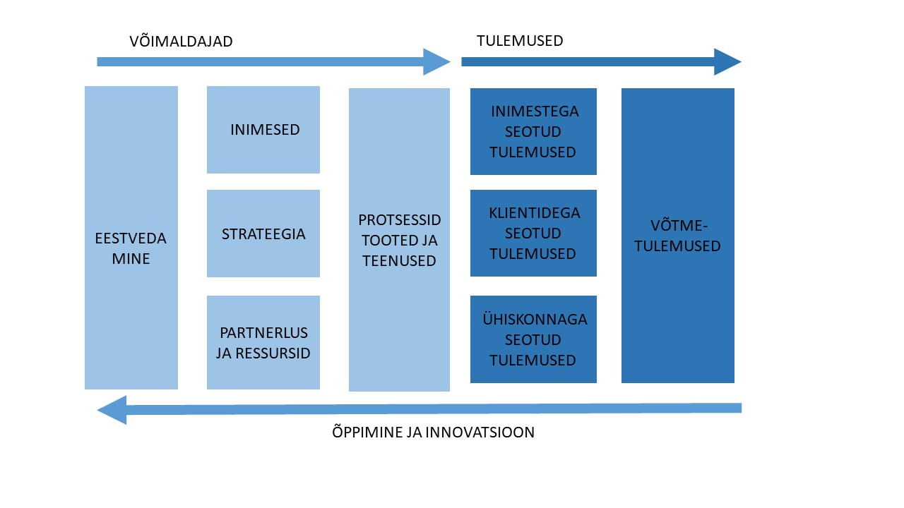 EFQM model conists of 9 criteria. 5 enabling criteria and 4 result criteria